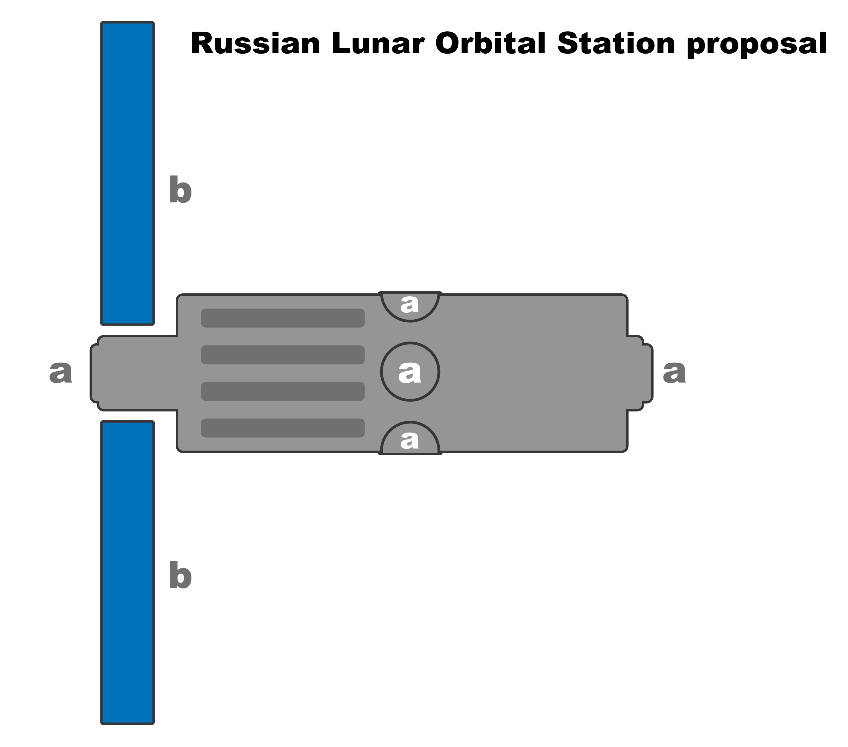 Russian Lunar Orbital Station proposal